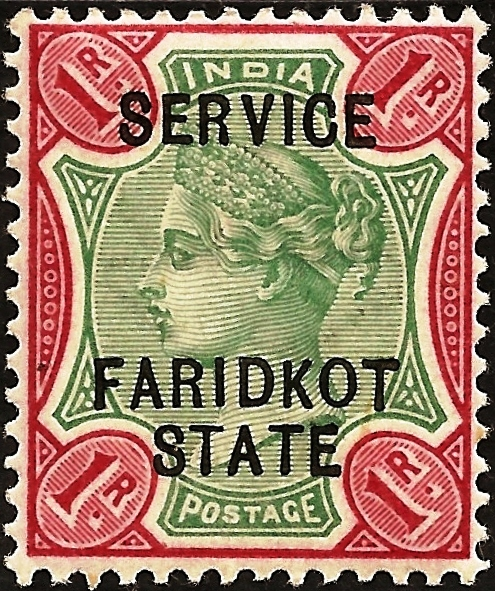 One Rupee Queen Victoria Head (green & carmine colours) overprinted with "FARIDKOT STATE" and “SERVICE” (Dec 1898). Postage stamp of Faridkot state, an Indian convention state in the Punjab. Ser No O15 for Faridkot in Stanley Gibbons Stamp Catalogue Commonwealth & British Empire Stamps (1840-1970). (2008). London. Ref pg 283. Own work. From the collection of Brig A.P. Singh (self). This work created by the United Kingdom Government is in the public domain. This is because it is one of the following: It is a photograph taken prior to 1 June 1957; or It was published prior to 1969; or It is an artistic work other than a photograph or engraving (e.g. a painting) which was created prior to 1969. HMSO has declared that the expiry of Crown Copyrights applies worldwide (ref: HMSO Email Reply)More information. See also Copyright and Crown copyright artistic works.